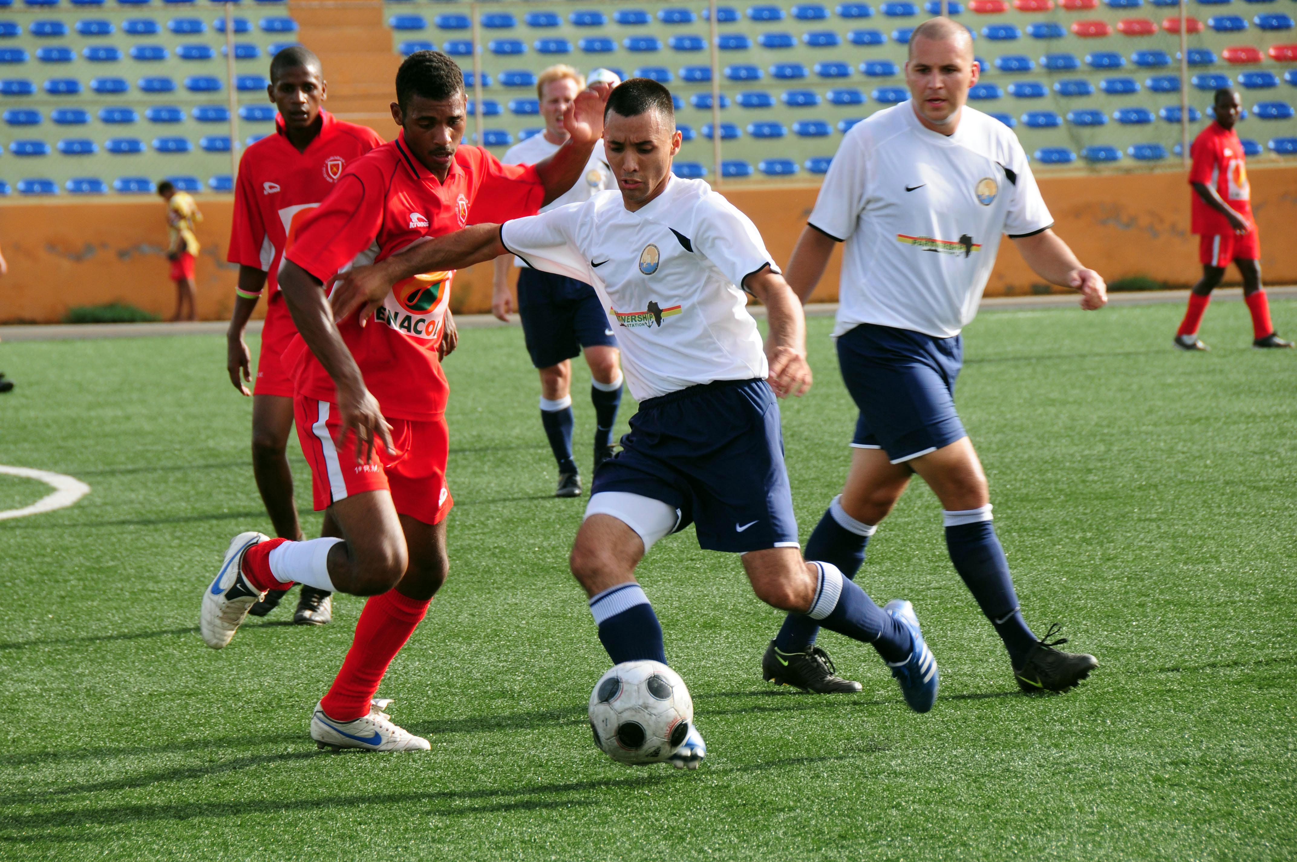 MINDELO, Cape Verde (Sept. 10, 2008) Yeomen 2nd Class Rafael Flores holds off a defender as he advances the ball up the field during a soccer match between the European Region U.S. Navy soccer team and a Cape Verde military team at the Municipal Stadium in Mindelo, Cape Verde. The soccer team is participating for an 11-day sports diplomacy tour. The tour is focused on improving understanding and developing goodwill through sports, music and community relations in Cape Verde, Cameroon, and Gabon. (U.S. Navy photo by Mass Communication Specialist 2nd Class Marc Rockwell-Pate/Released)